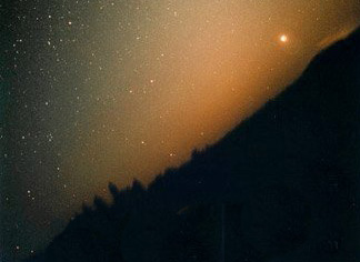 This image is cropped from this image.